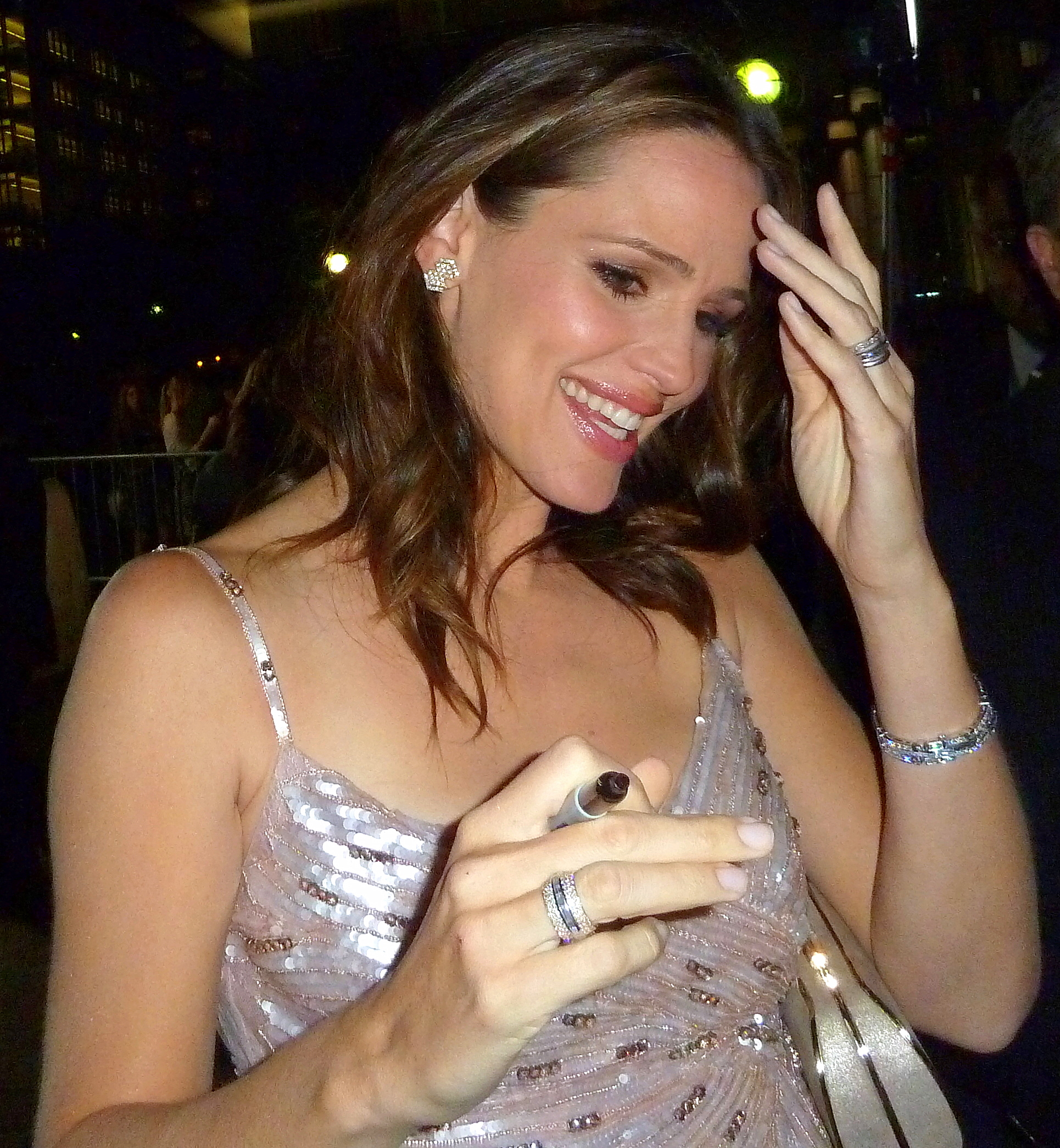 Jennifer Garner at the Toronto International Film Festival 2011.